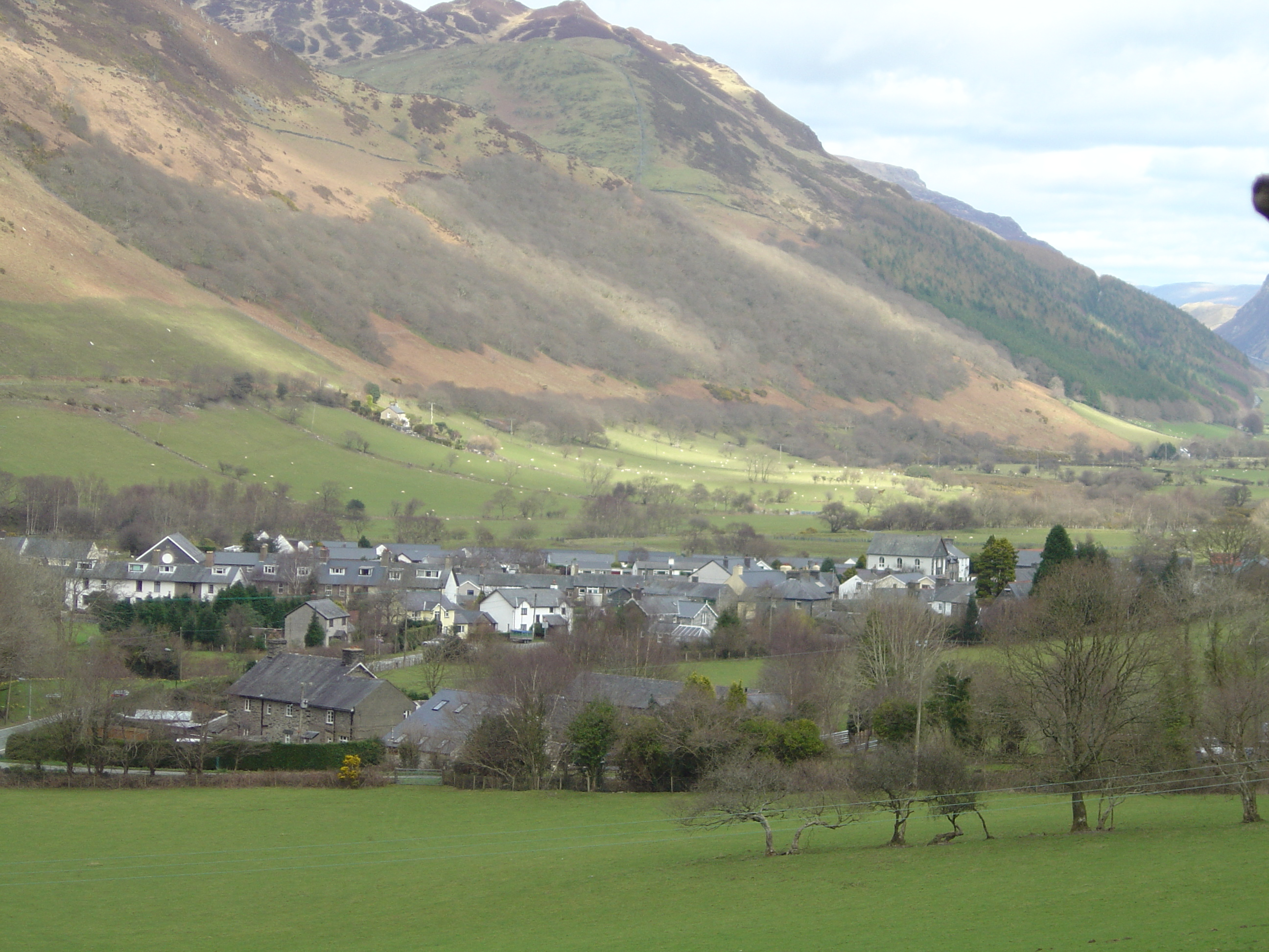 Abergynolwyn